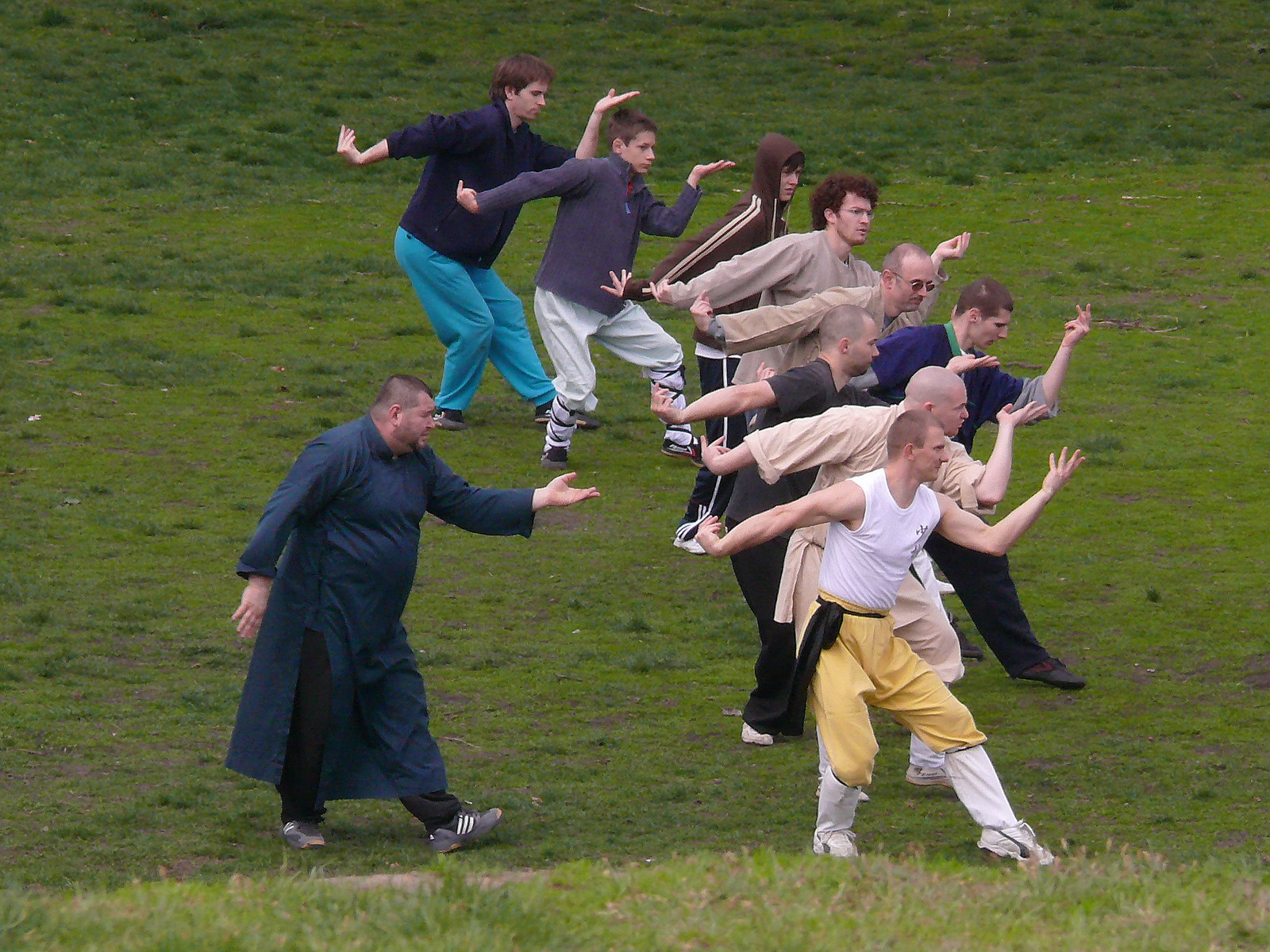 Men practicing monkey kungfu in Hungary, Budapest, Városliget